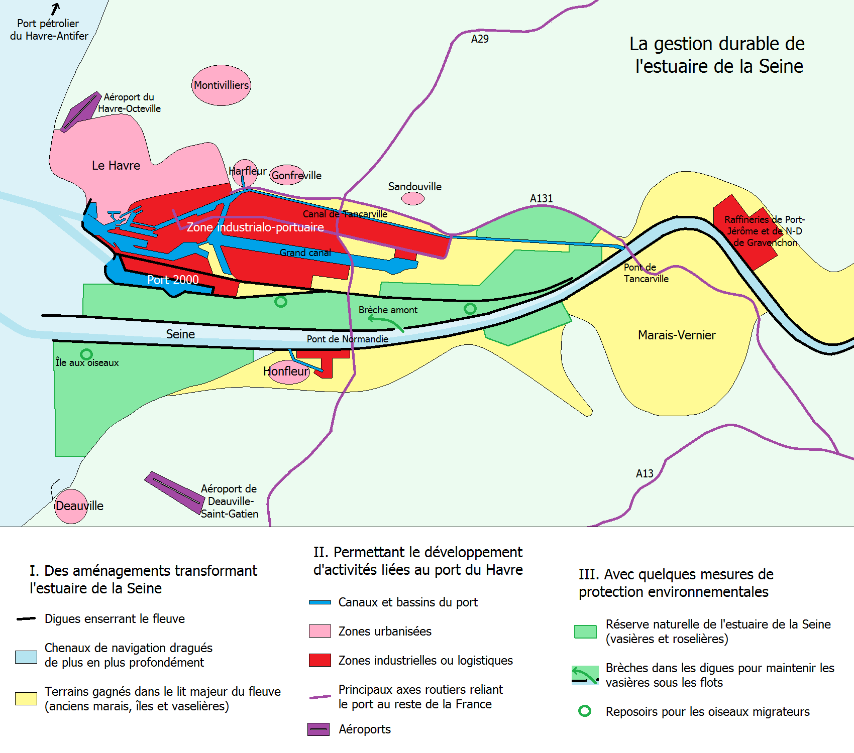 Croquis of the estuary of the river Seine (sustainable use), Upper Normandy, France.